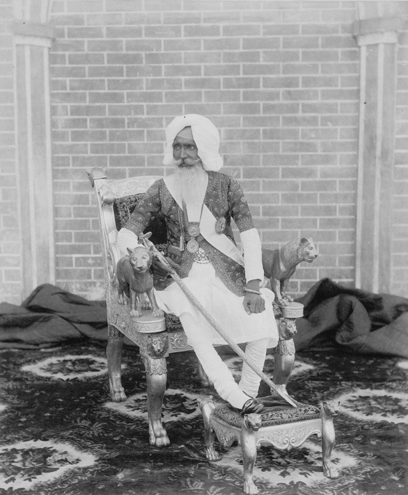 Photograph of Sir Hira Singh, the Raja of Nabha, taken by an unknown photographer in the 1890s. This full-length portrait shows the Raja seated on a gilded throne with his right leg raised on a footstool. He is dressed in royal regalia including medals and holding a jewel-encrusted sword. The arms of the throne are formed by carved lions. The Raja (1843-1911) ruled the princely state of Nabha in Punjab from 1871 until his death. A Sikh, he was a member of the Phulkian Dynasty descended from the Sidhu Jats. Families of the dynasty ruled Patiala, Jind, Nabha, Bahadur and other Punjab states. Nabha was one of three states collectively known as the Phulkian States, the others being Jind and Patiala. It became a separate state in 1763 and came under British control as a Native State in 1808-09. Under the rule of the British Empire the Raja, who had sent troops to fight in most of the frontier campaigns, was rewarded and created a Knight Grand Commander of the Most Exalted Order of the Star of India and entitled to a 15 gun-salute. The image is one of several prints recording the visit of Lord Elgin to Nabha and Patiala, in an album mainly devoted to his Burma tour of November to December 1898. Victor Alexander Bruce (1849-1917), ninth Earl of Elgin and 13th Earl of Kincardine, served as Viceroy of India between 1894 and 1899.